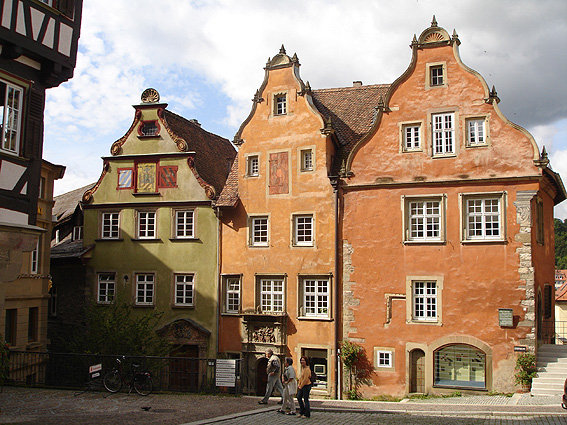 Schwäbisch Hall, Renaissance houses at the market square. Picture taken on 26 August 2005 by User Waterproof947